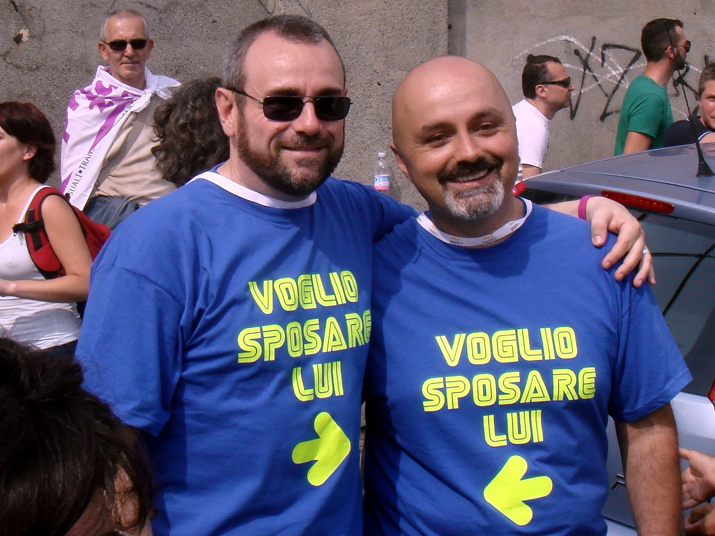 The national Gay Pride march in Genoa (June 27, 2009) gathered 200.000 marchers favouring the request of a law allowing civil partnership and gay weddings also in Italy. .